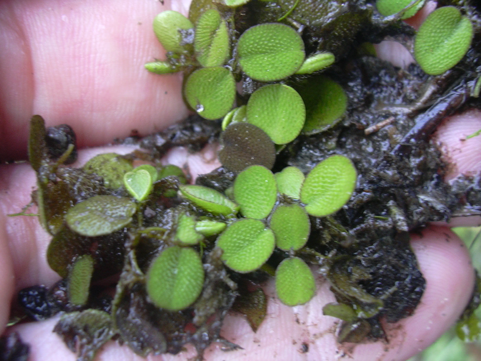 Salvinia minima (habit). Location: Florida, Long Key